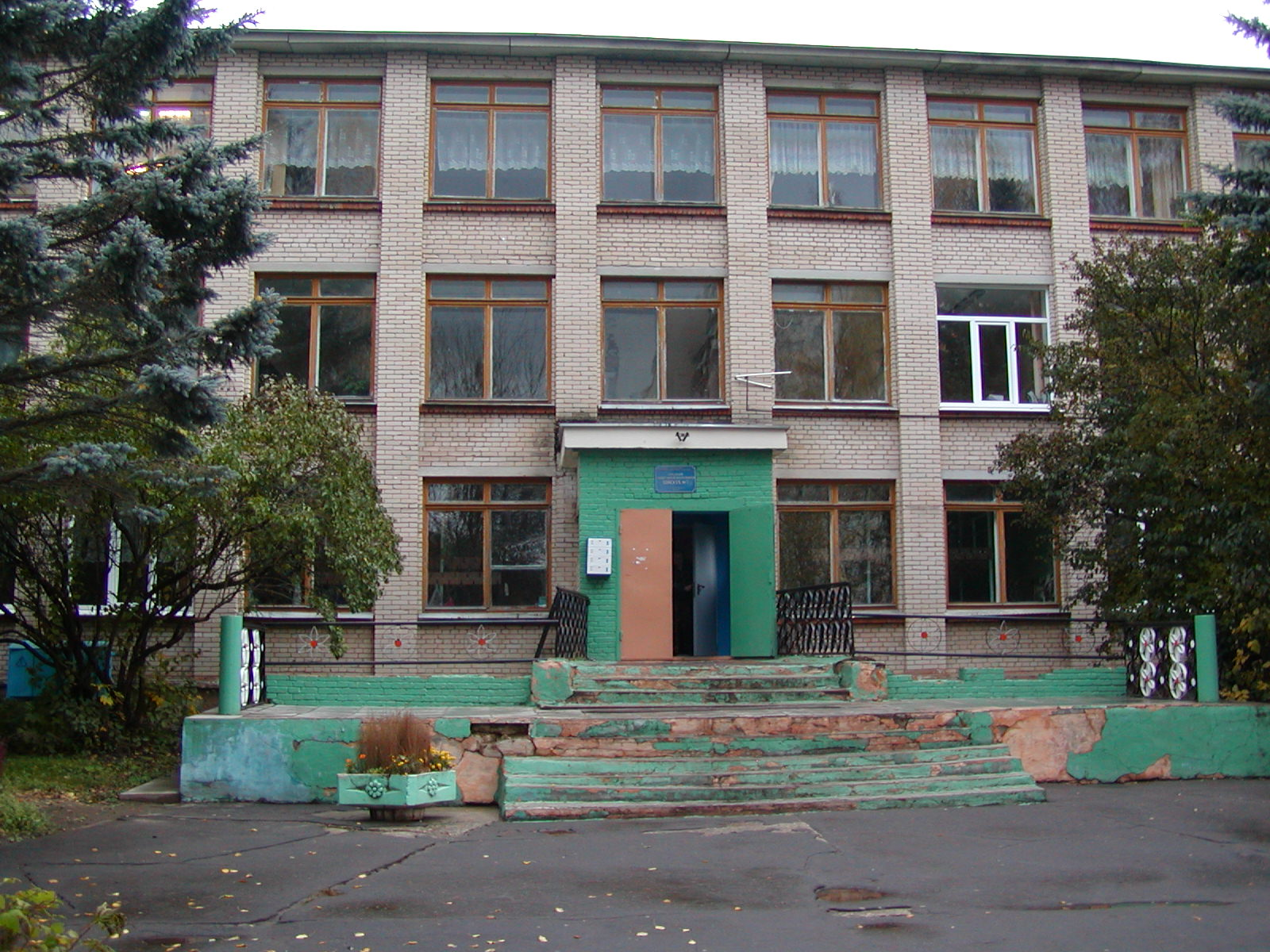 Main entrance of school № 7 (Obninsk)